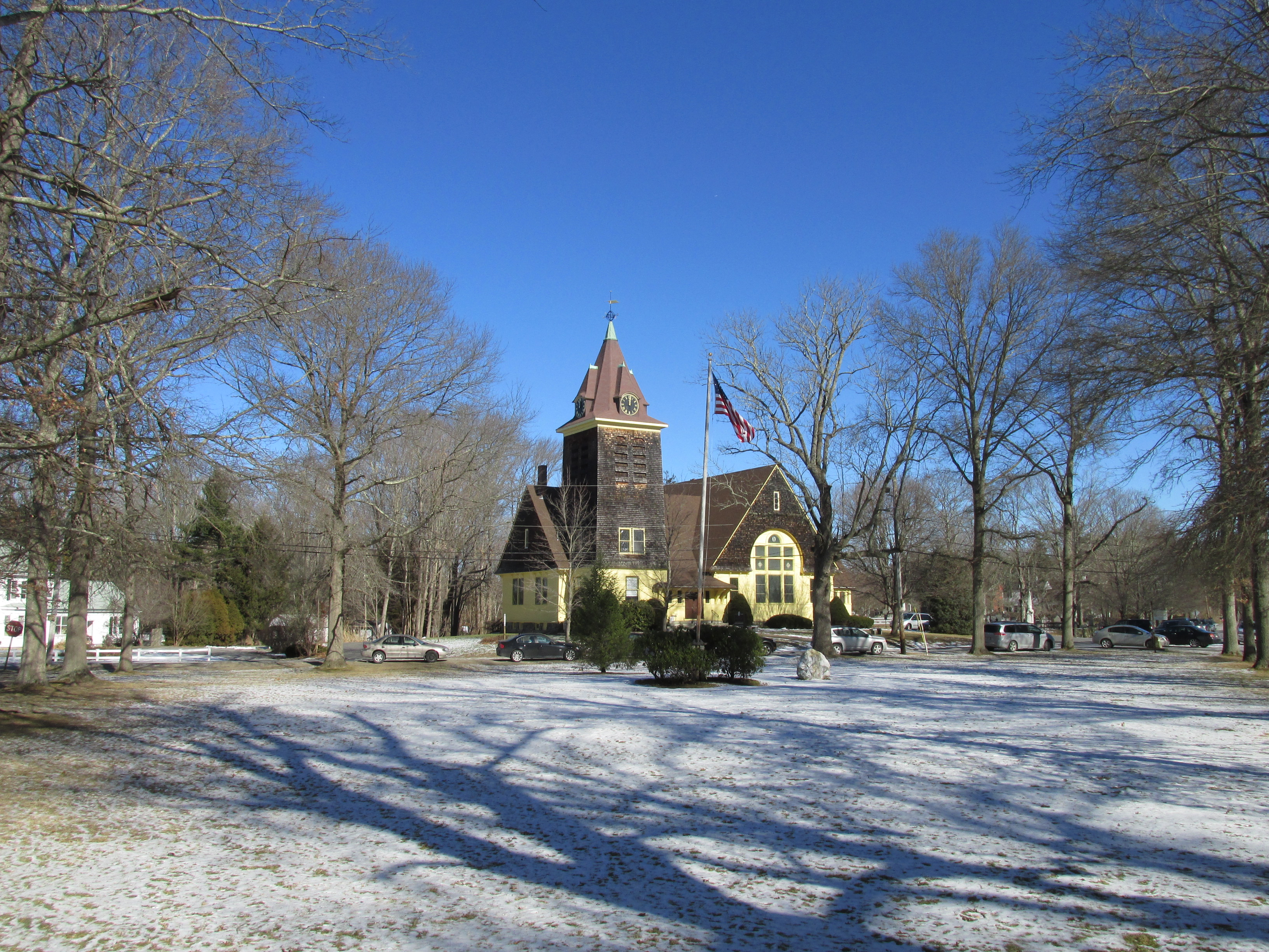 North Congregational Church, North Middleborough Massachusetts